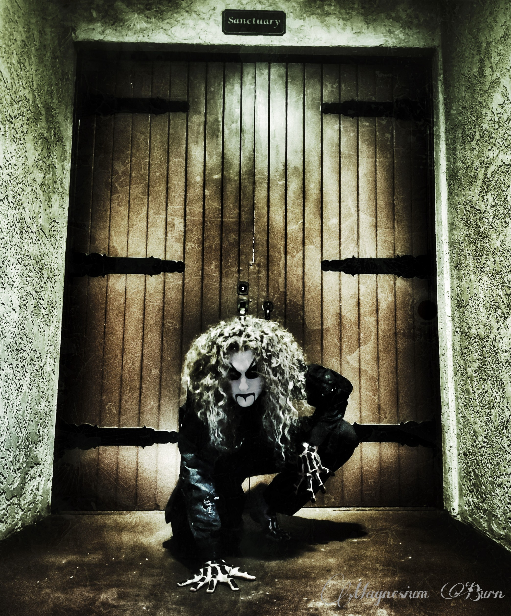 Ixithra of Demoncy crouching in a churches entryway.